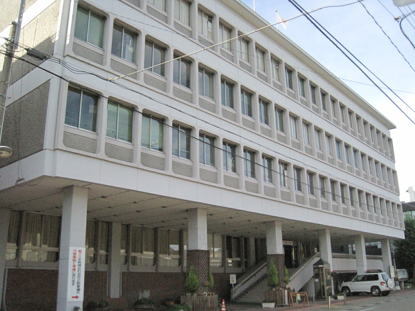 Himi City Hall(Himi city, Toyama prefecture)